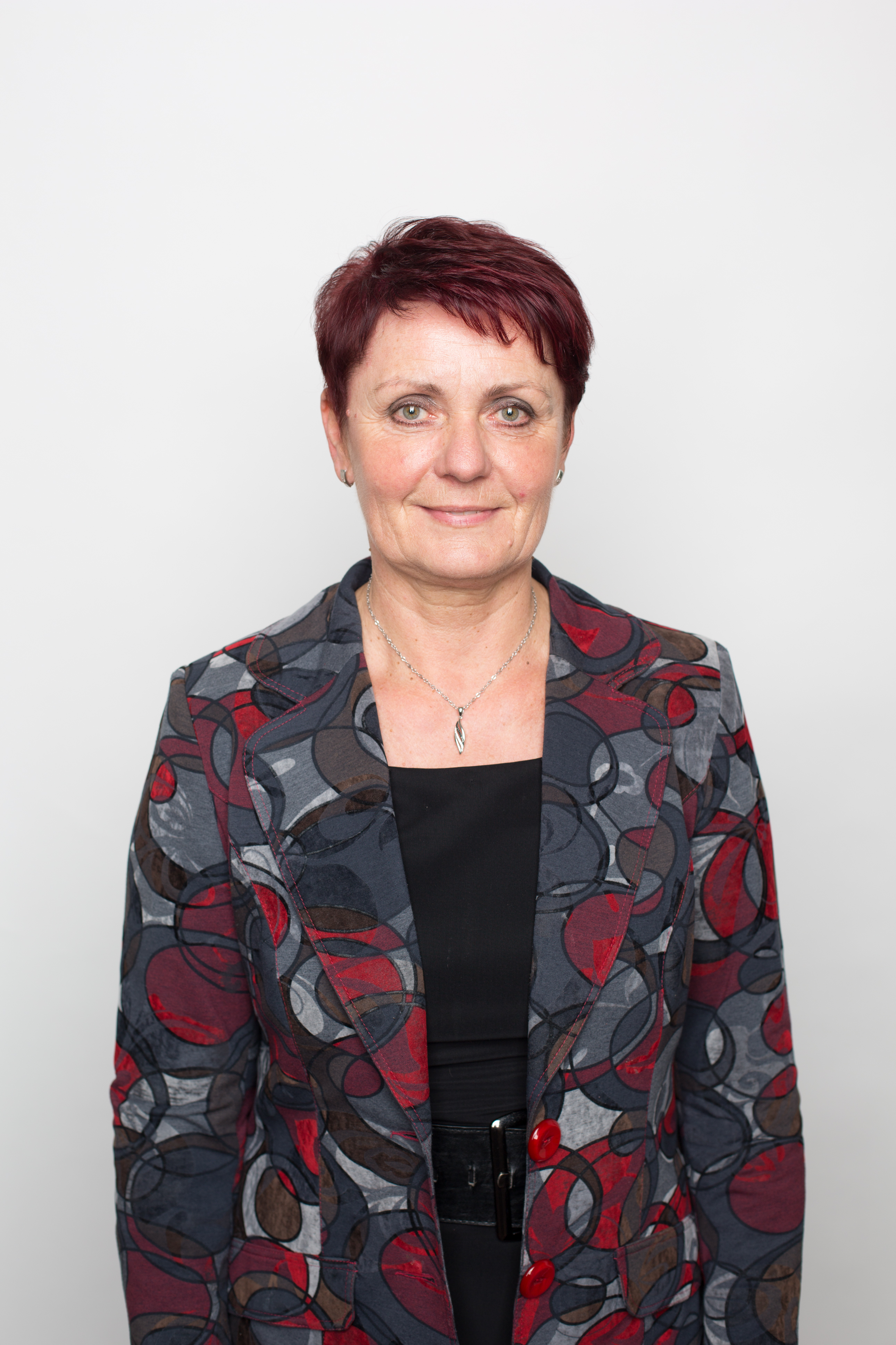 Ing. Bc. Anna Hubáčková, from 2016 member of the Senate of the Parliament of the Czech Republic